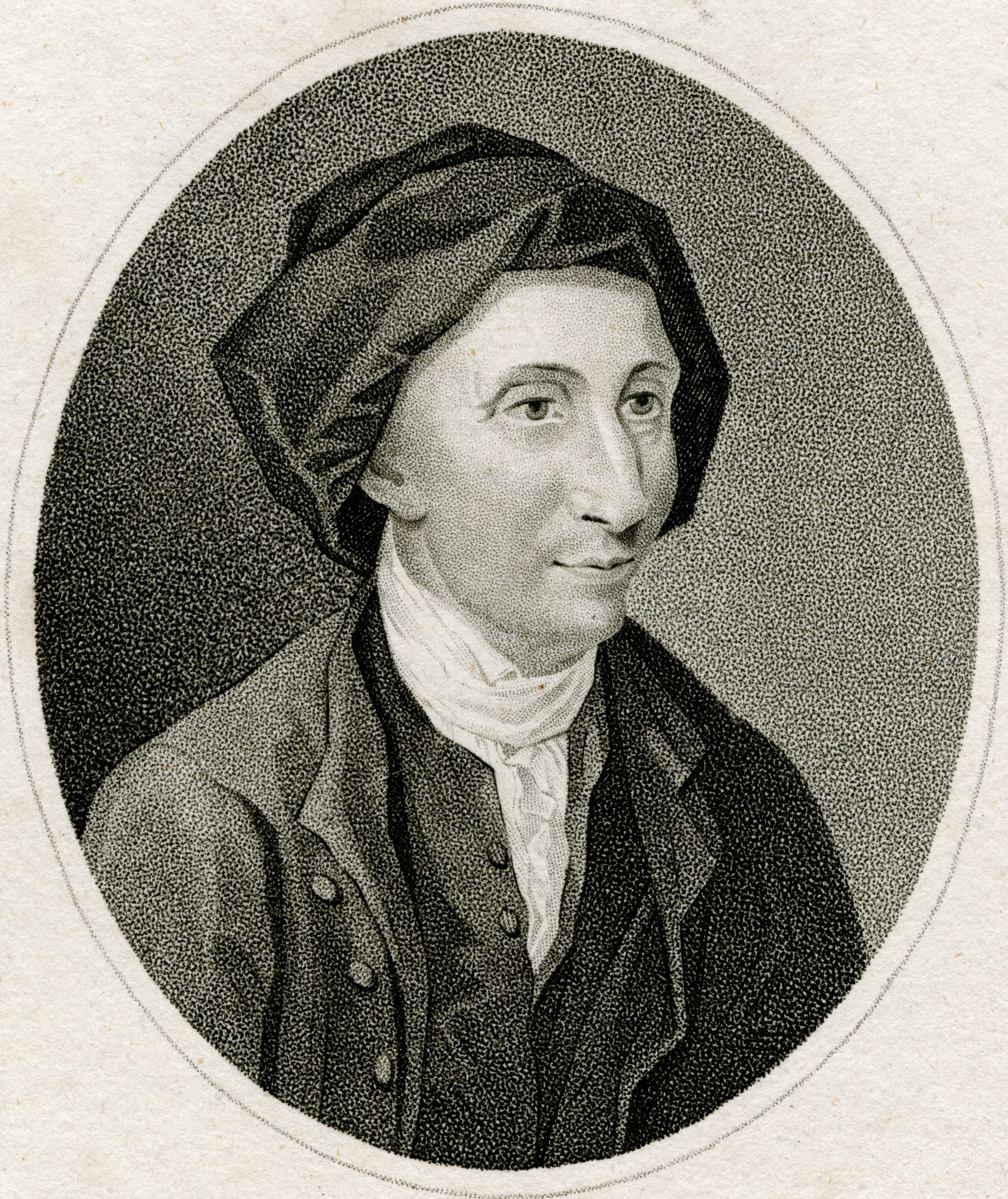 Matthew Maty (1718–1776)